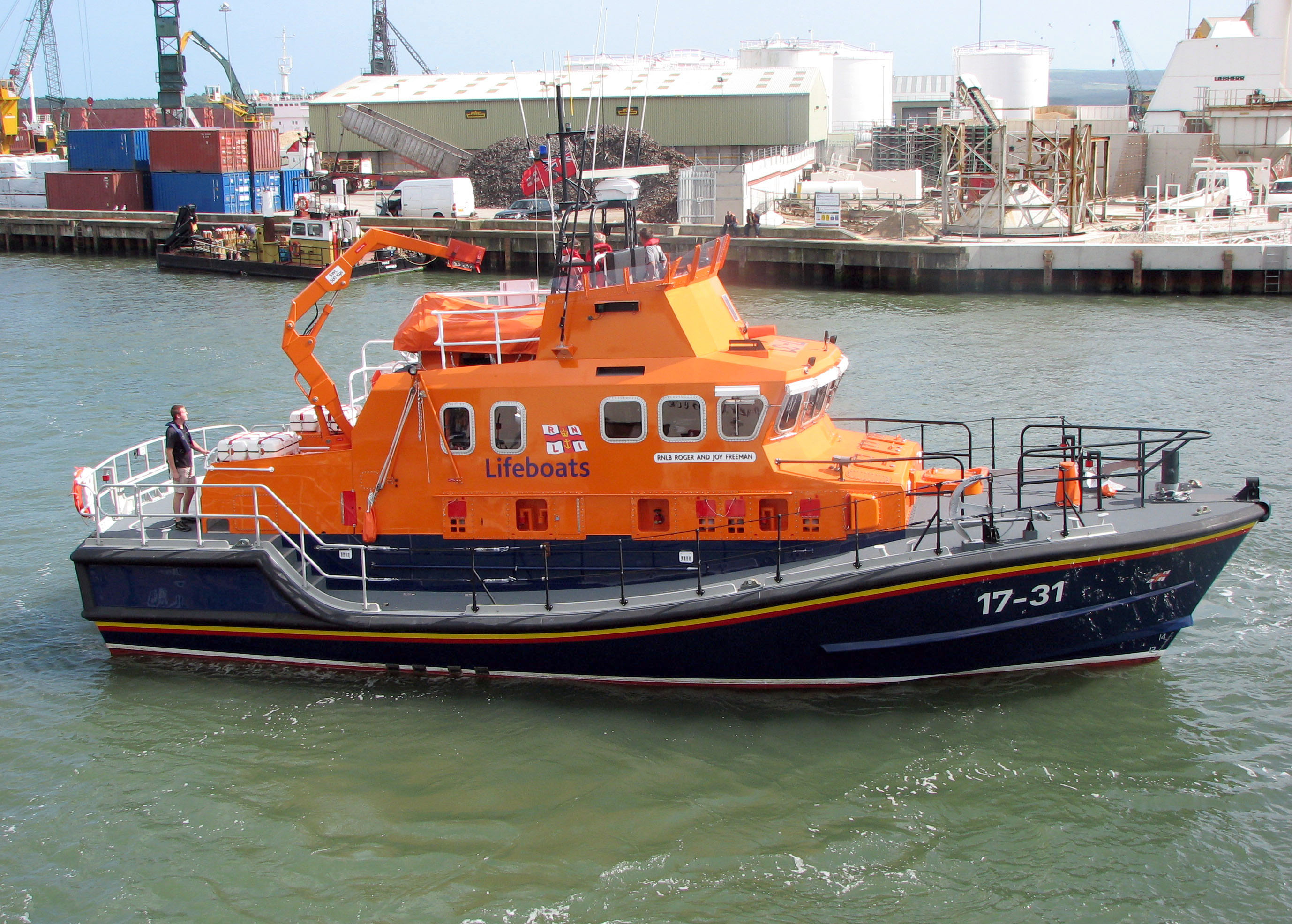 Severn class lifeboat in Poole Harbour, Dorset, England. The largest class of UK lifeboat at length 17 metres. Made from: fibre reinforced composite. Power: two 1250HP diesels. Fuel Load: 4.6 tonnes. Crew: 7 (including a doctor). Endurance: 10 hours at 25 knots. This class lies afloat on a sheltered mooring or pontoon berth and is allocated to stations where its size and large survivor carrying capacity will be useful (ie ferry ports). A Y class inflatable boat is carried on the wheelhouse roof and is launched by the onboard crane.